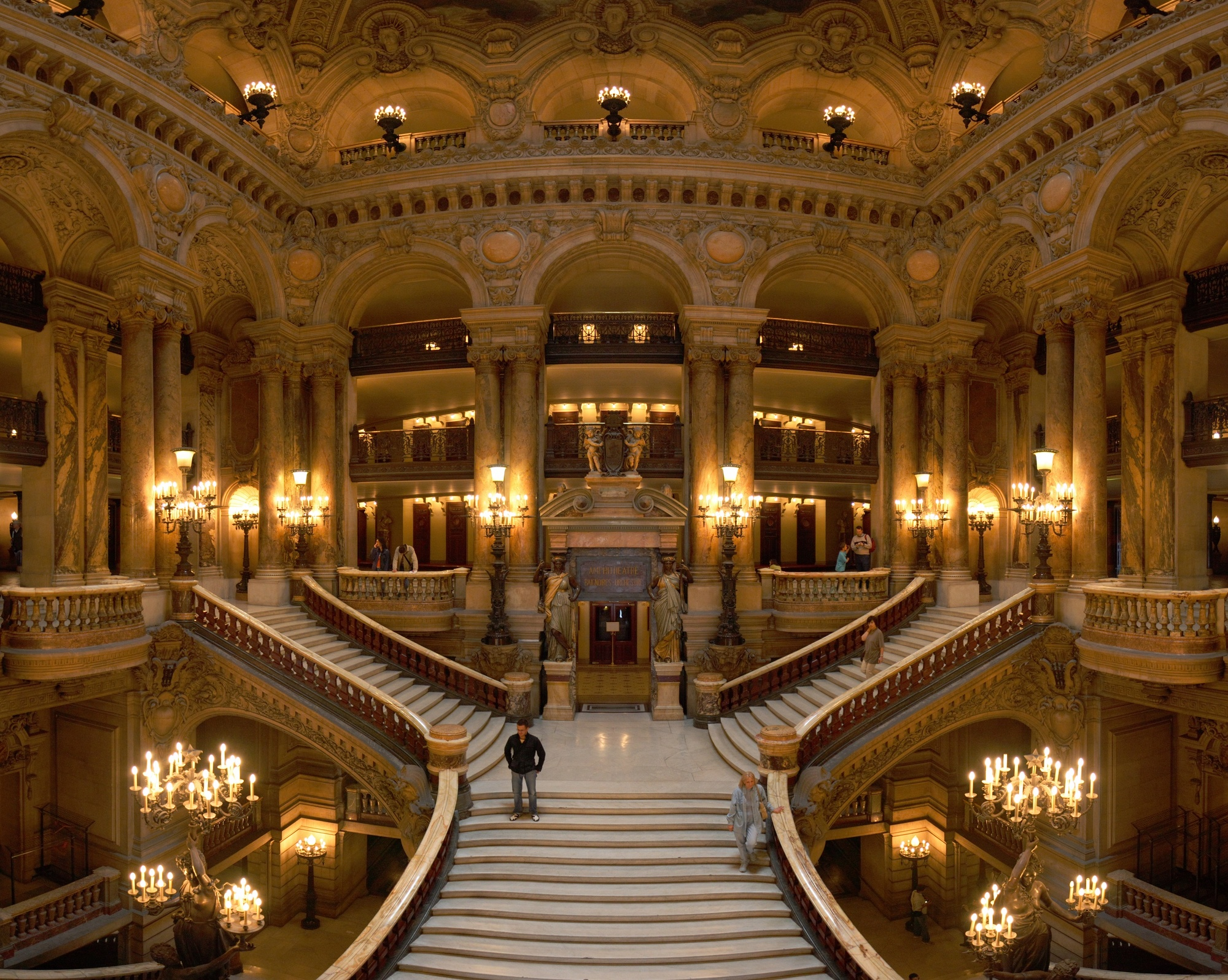 The Large Staircase of The Garnier Opera, in Paris. This image consists of 12 photographs, stitched together with Hugin. Each photo was taken by hand, hence the lack of details.